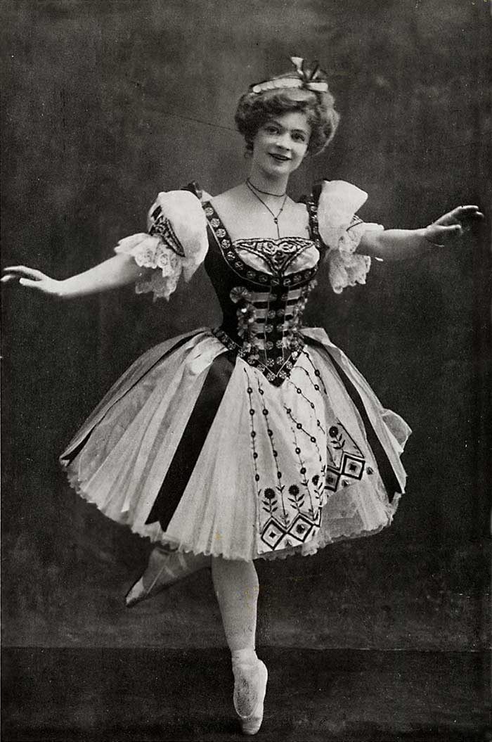 Photo by unknown of Adeline Genée in Coppélia, London, 1900. Photo comes from my collection and was scanned by me, Mrlopez2681 05:10, 25 December 2006 (UTC)